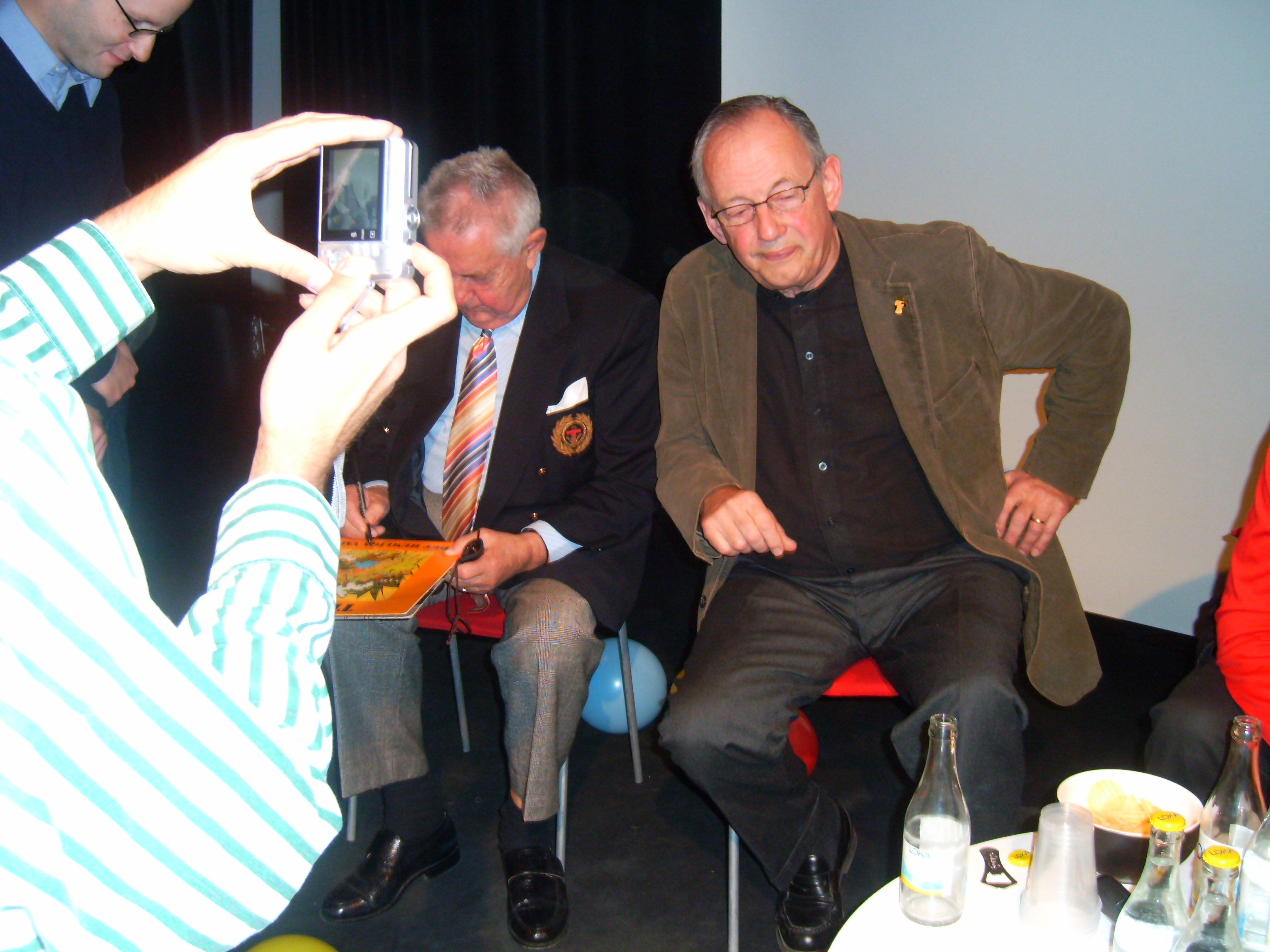 Bert-Åke Varg och Lars Edström, svenska skådespelare